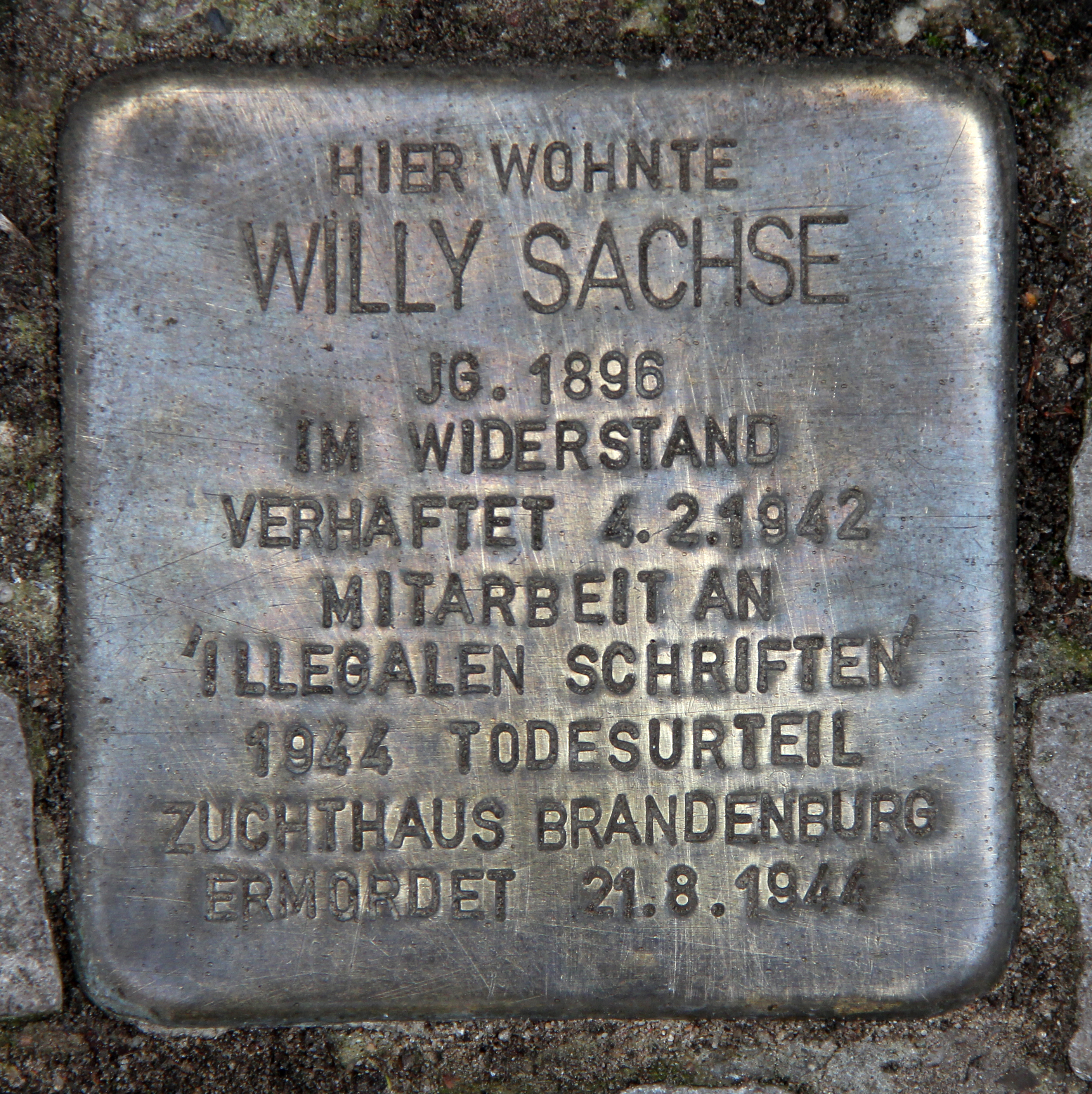 "Stolperstein" (stumbling block), Willy Sachse, Corker Straße 29, Berlin-Wedding, Germany